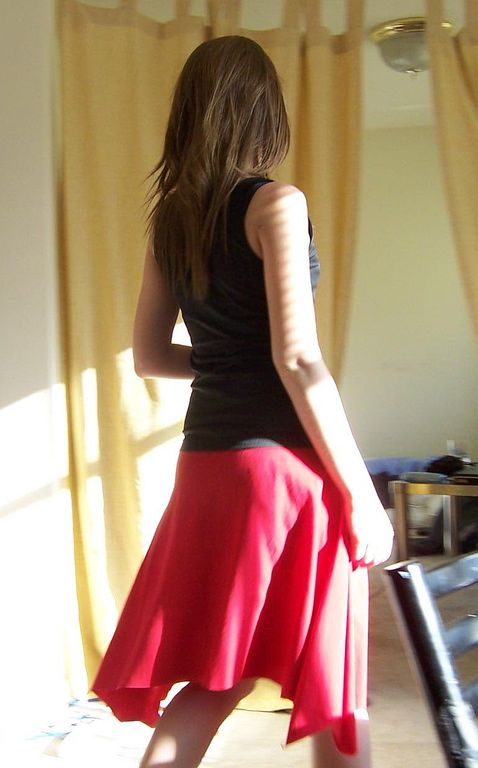 Handkerchief hem skirt from behind